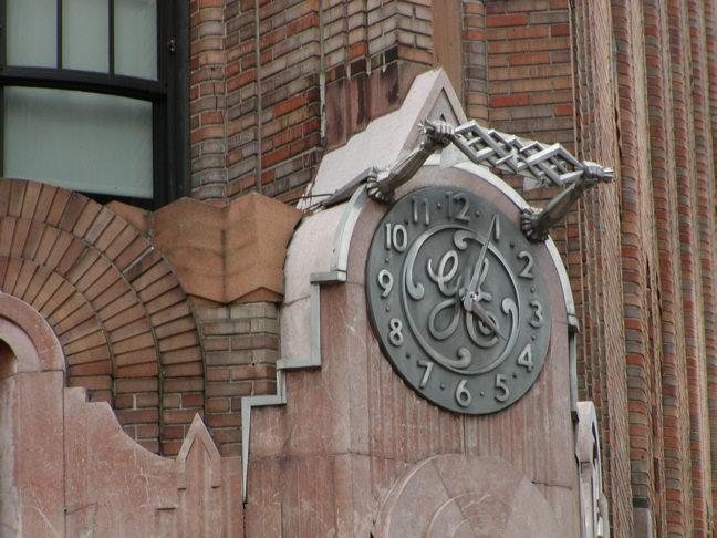 General Electric Building entry detail, 570 Lexington Avenue, NYC.